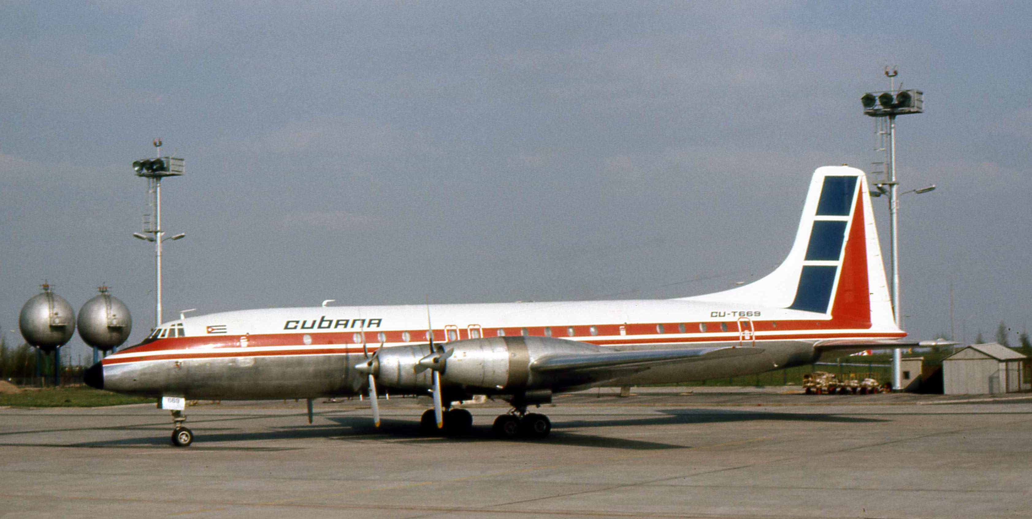 Built in 1960 and delivered to Cubana as CU-P669 then registered CU-T669. Delivered to Aero Caribbean and registered CU-T114. Withdrawn from use in 1987 and broken up in Havana.